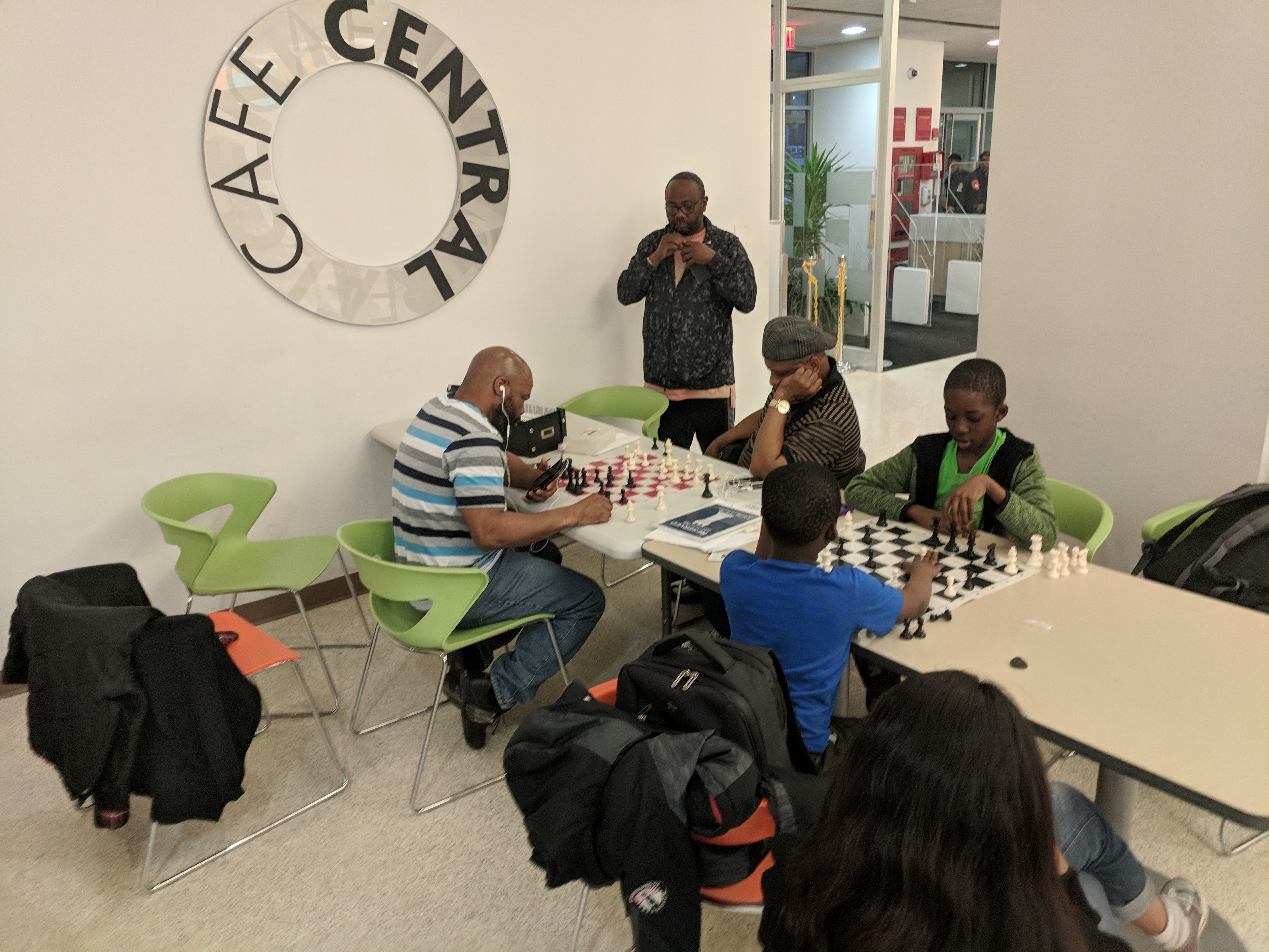 QBPL inside view, Chess players cafe Main branch happenings, Merrick blvd